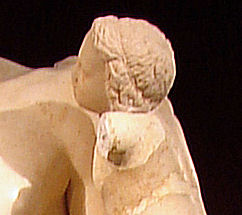 Detail of right arm